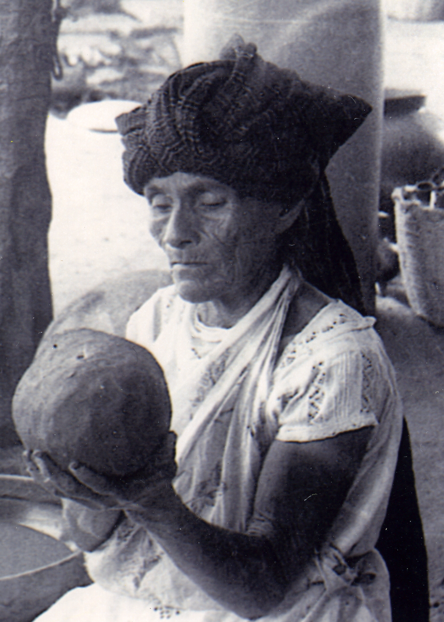 Doña Rosa working on a piece in San Bartolo Coyotepec, Oaxaca Mexico